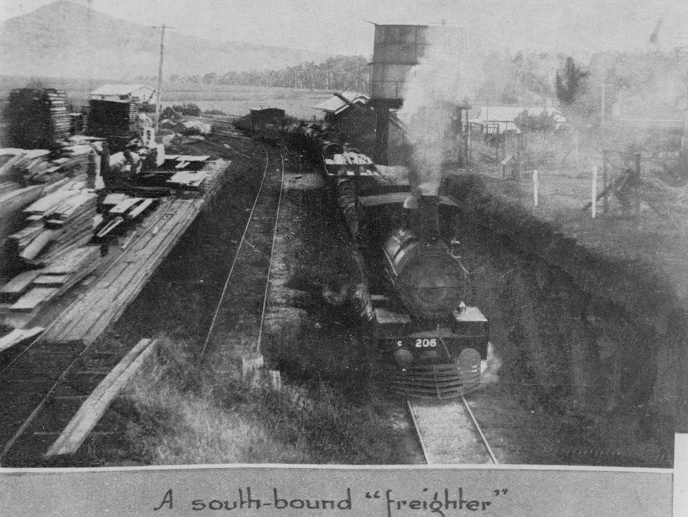 Locomotive at Yungaburra Station, Queensland. Script under photograph reads, 'A south-bound freighter'.